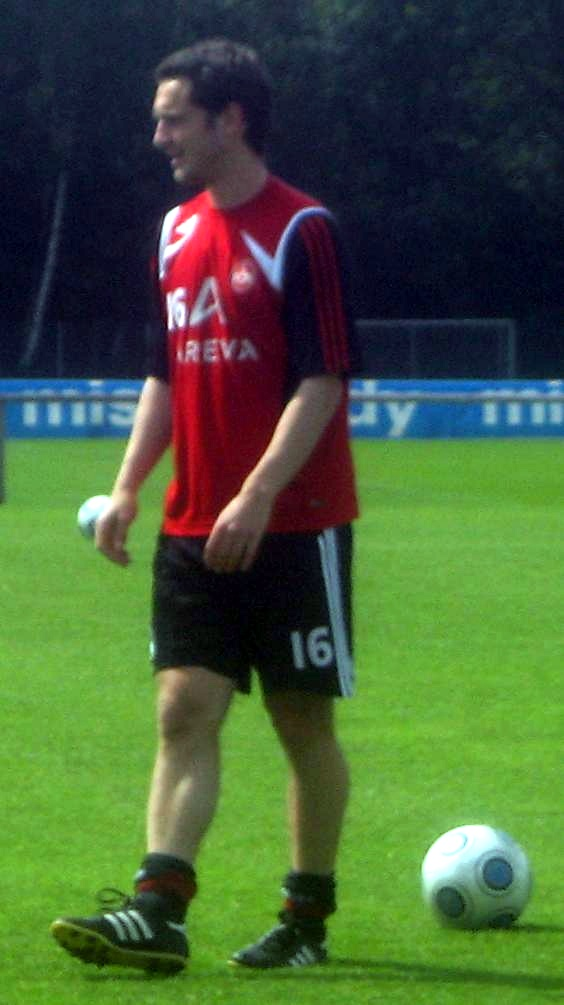 Juri Judt, a football player from Germany.